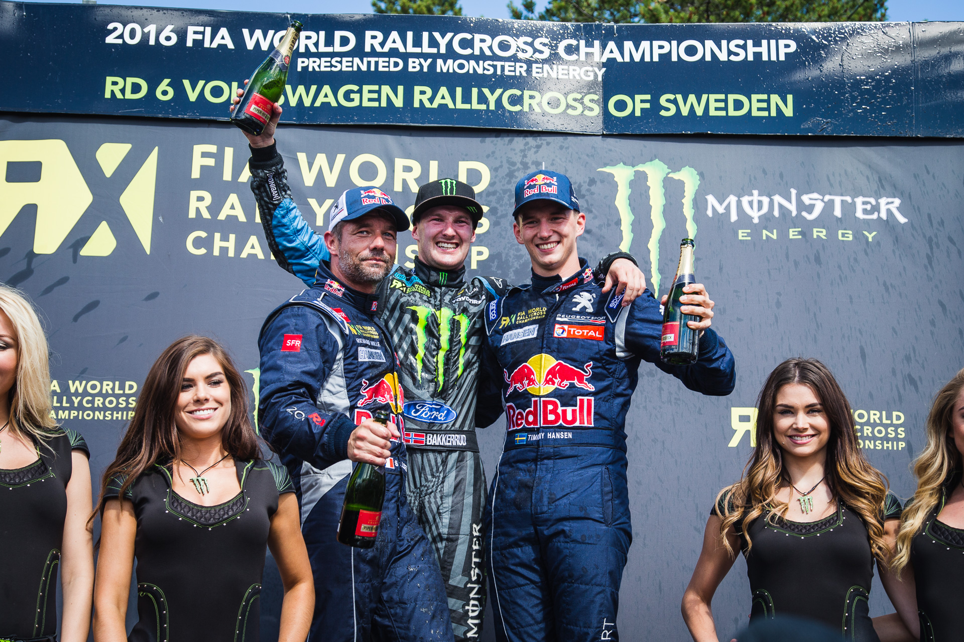 Podium at Round 6 of the 2016 FIA World Rallycross Championship at Höljesbanan, Sweden. From left to right: Sébastien Loeb (2nd), Andreas Bakkerud (1st) and Timmy Hansen (3rd).